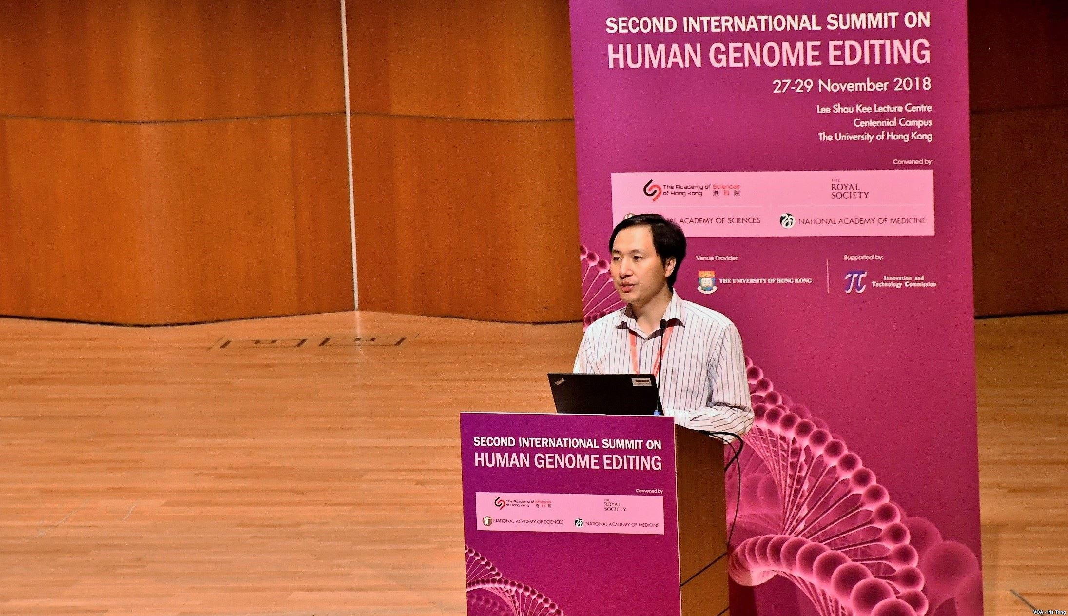 Jiankui He at Second International Summit on Human Genome Editing